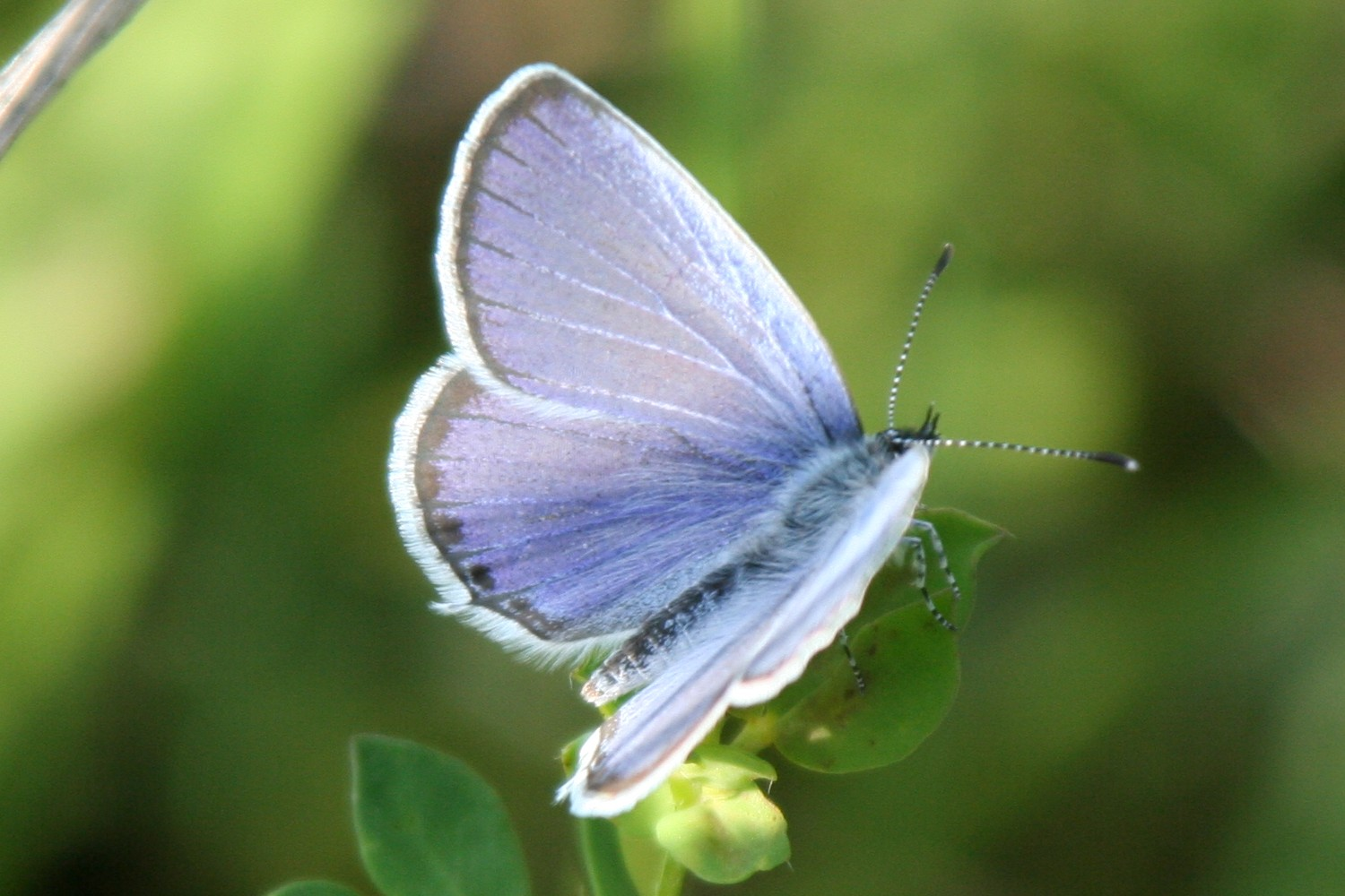 A male short-tailed blue butterfly (Cupido argiades), photographed in Weinsberg